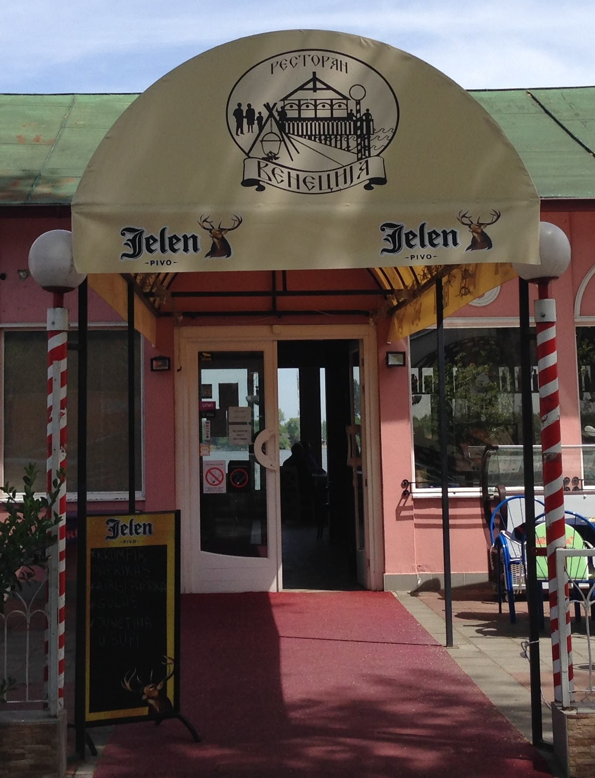 Restaurant "Venecija" in Zemun, Serbia Srpski (latinica): Restoran "Venecija" Zemun, Beograd, Srbija